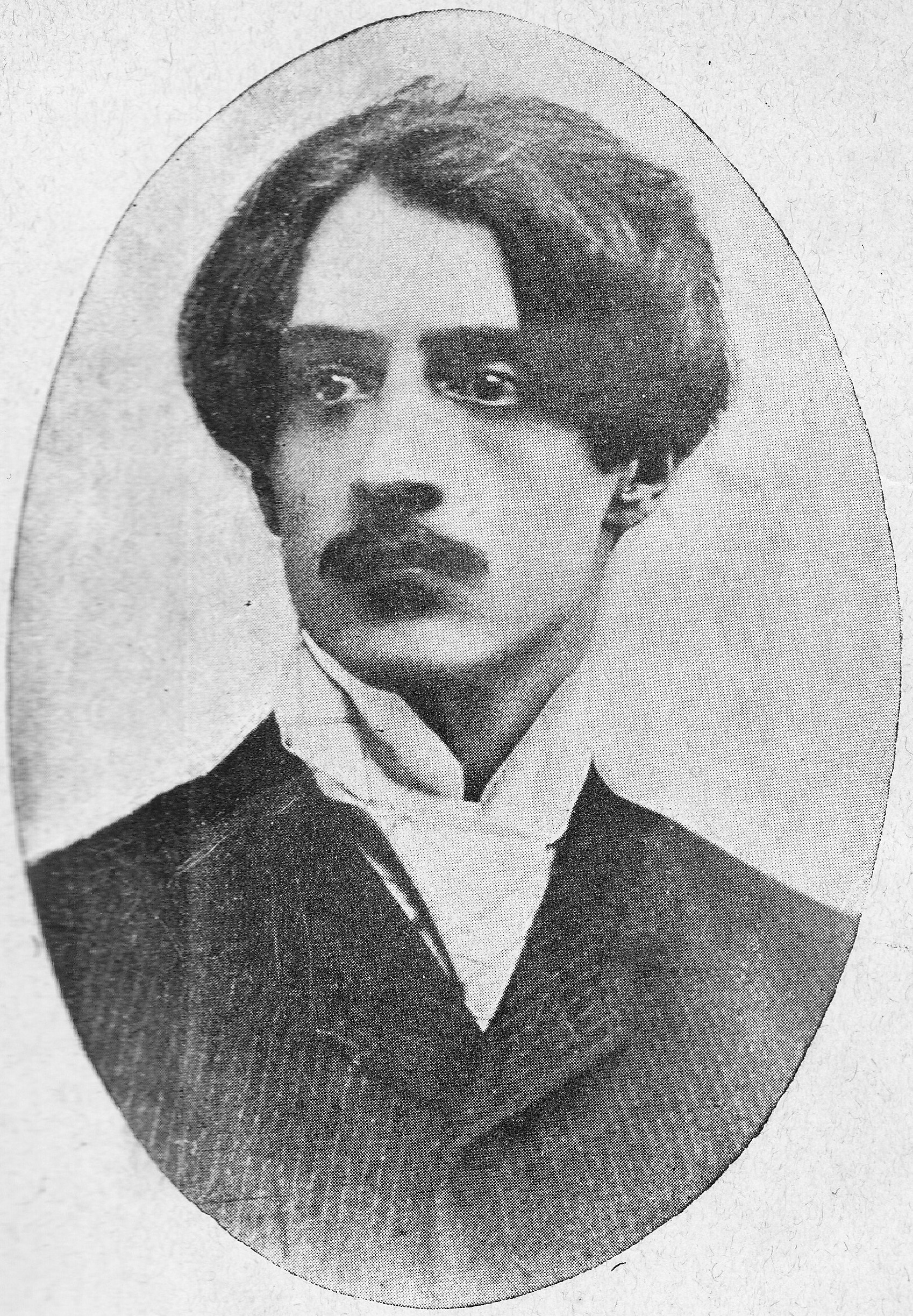 Zygmunt Rozycki, Polish poet, in 1909